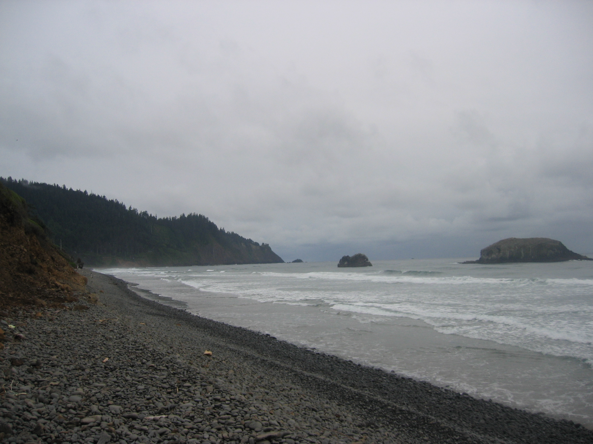 Photo of the Cove Beach shoreline in Oregon, USA.